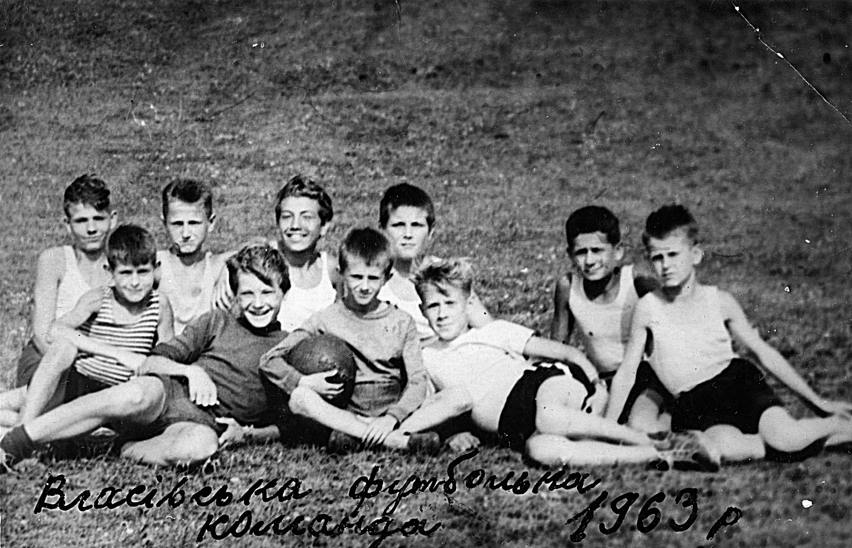 The football team of the village of Vlasovka, Ichnia Raion, 1963. The guys were born in 1949-1952, age 11-14 years. They played in the summer with the teams of villages Petrushevka, Parafievka, Irzhavets.